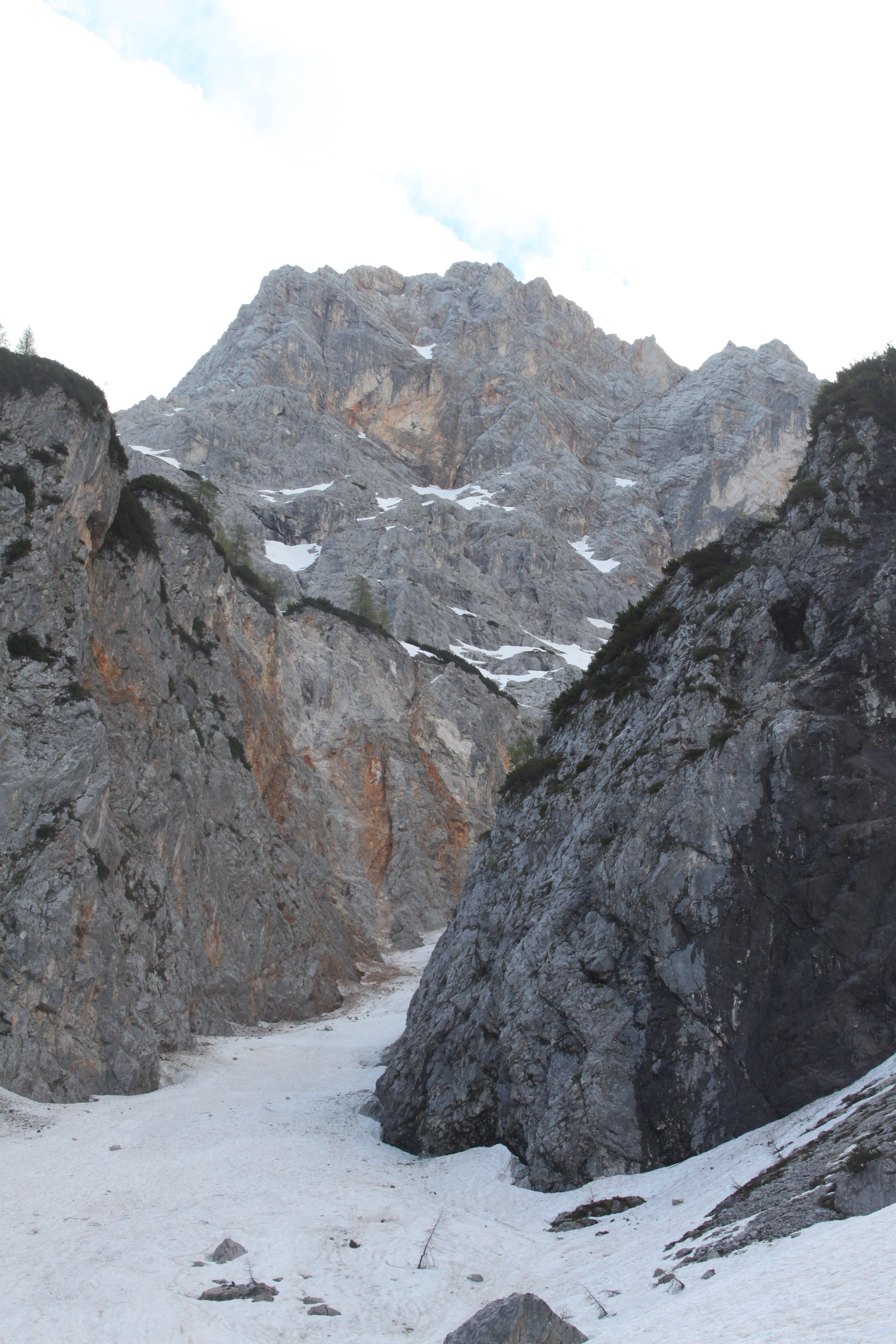 Mount Kukova špica, above cirque Za Akom, Martuljek group, Slovenia.